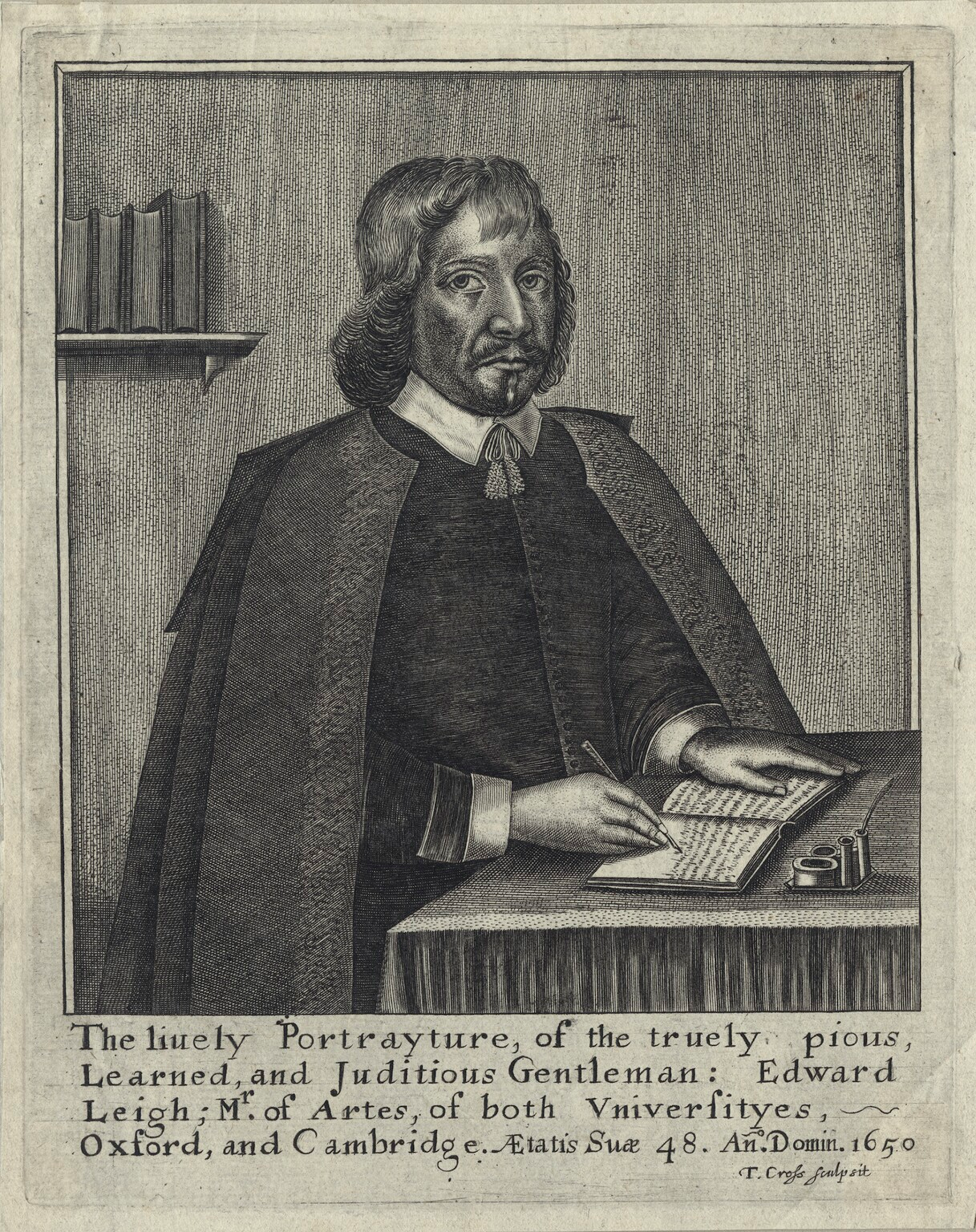 Portrait of Edward Leigh